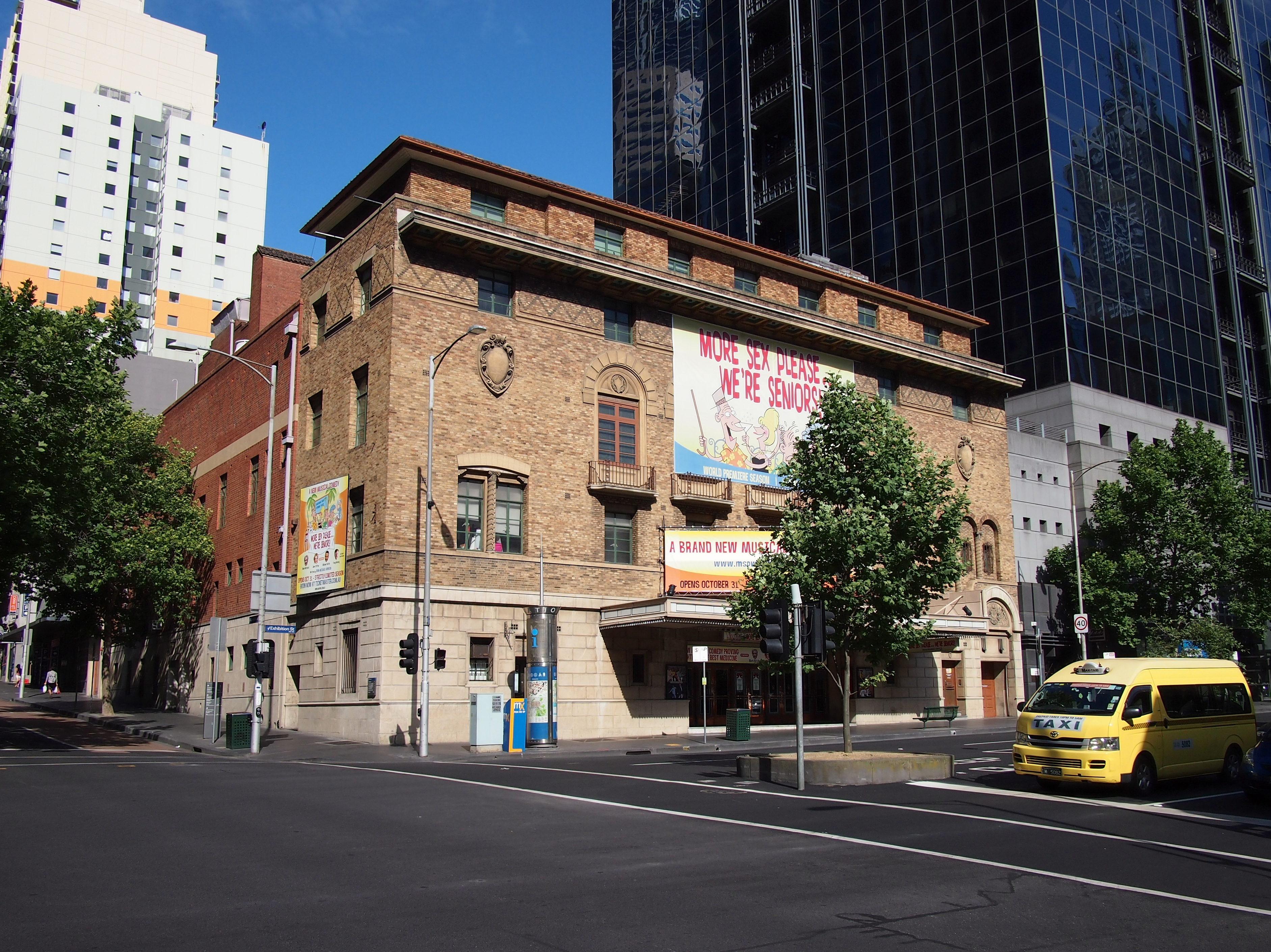 The Comedy Theatre viewed from the North East